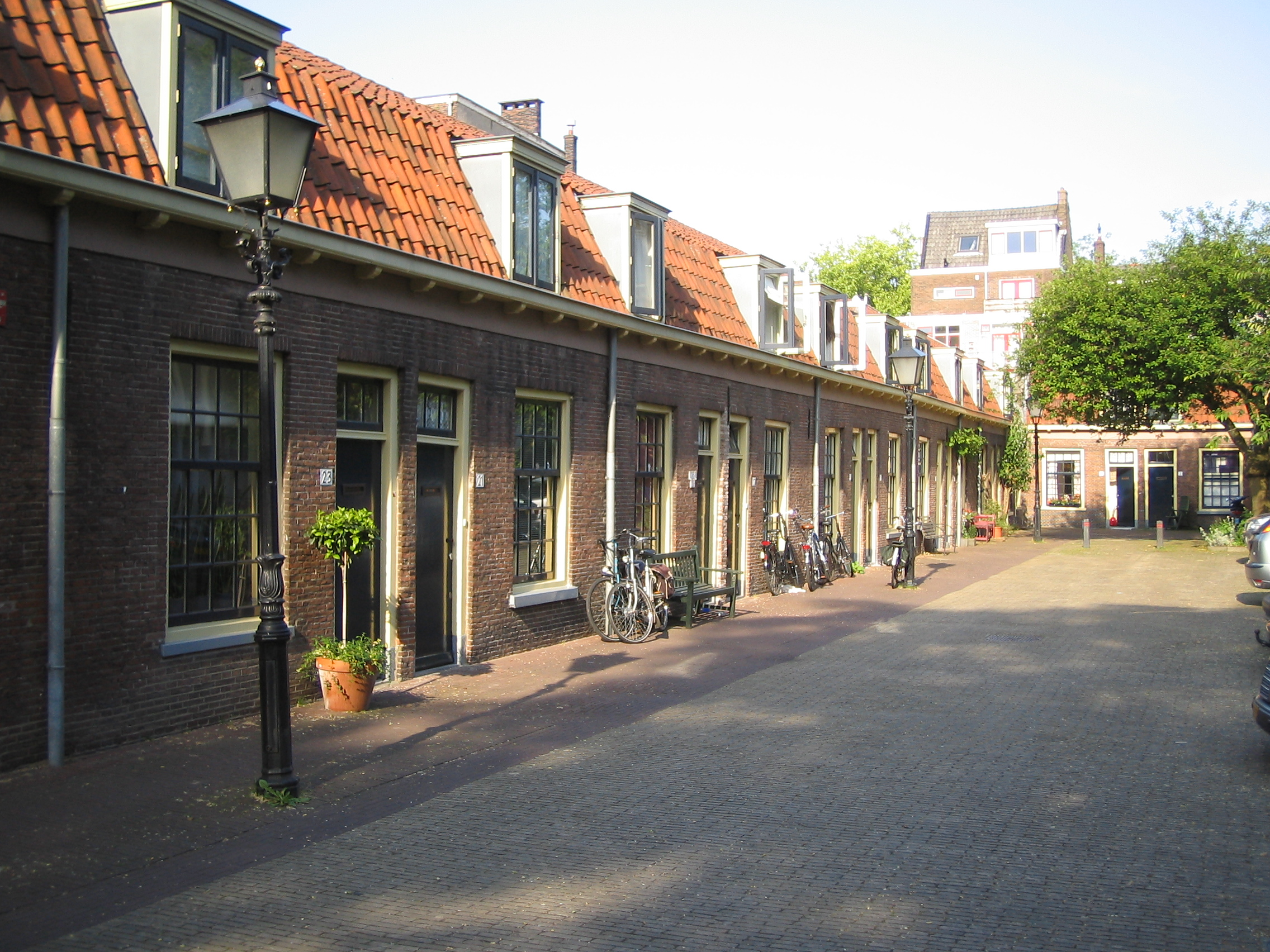 Fockstraat, Seven Alleys, Utrecht, NL